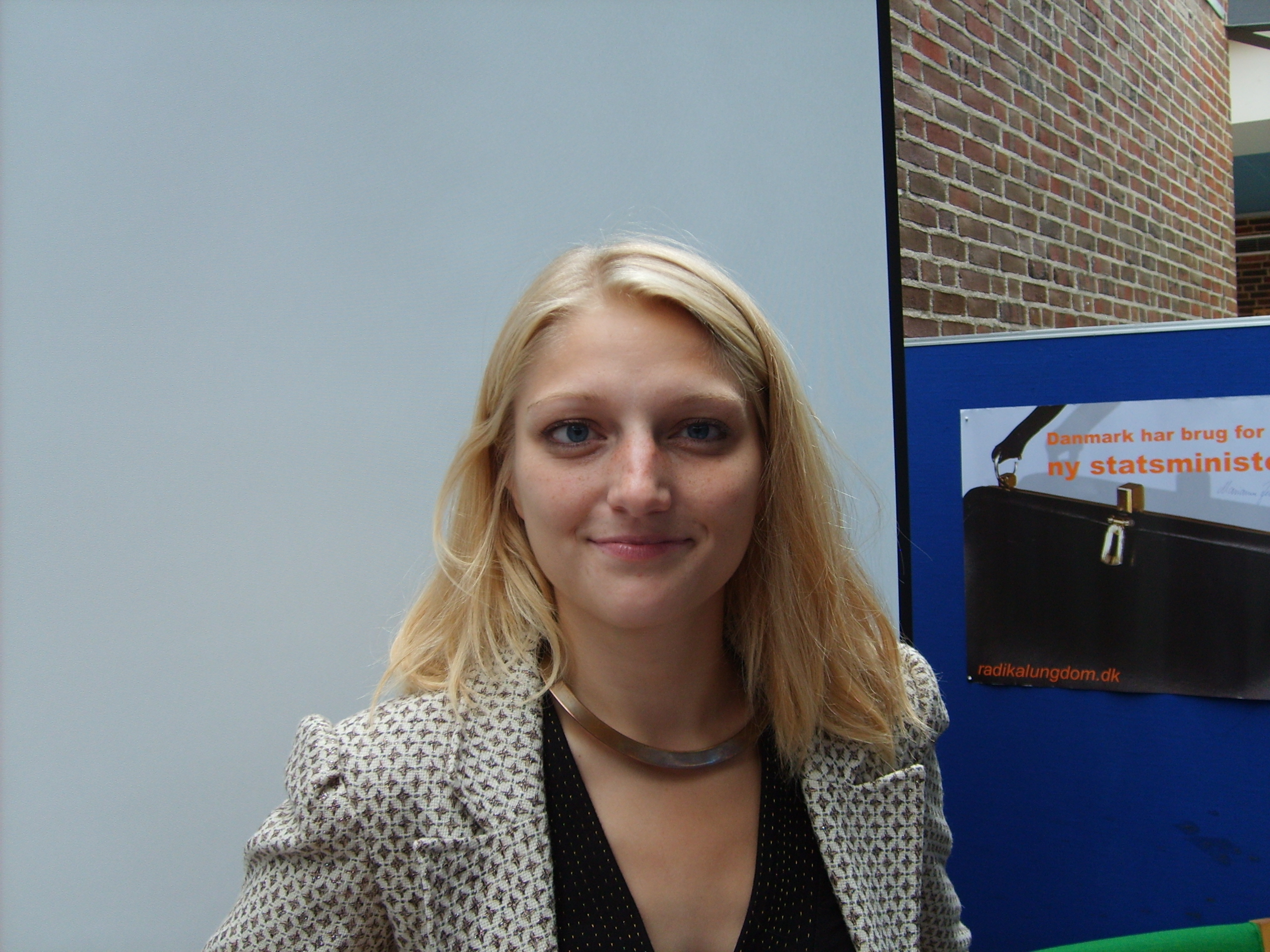 Danish politician Zenia Stampe (Social Liberals)